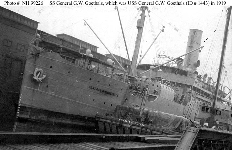 Passenger-cargo steamer SS General G. W. Goethals, which served in the United States Navy in 1919 mas the cargo ship and troop transport USS General G. W. Goethals (ID-1443). The barge Ethel and Lillian is alongside.